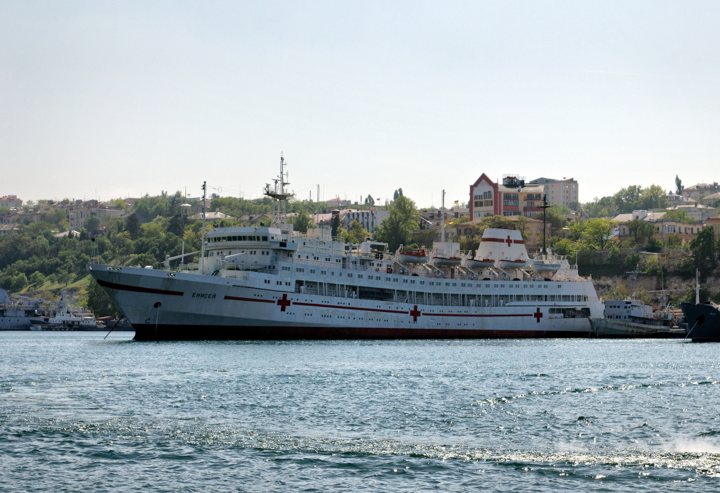 Sevastopol. Hospital ship "Yenisey"